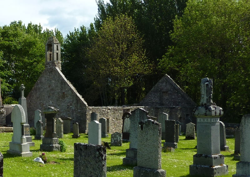 Deskford Church, Deskford, Moray, Scotland